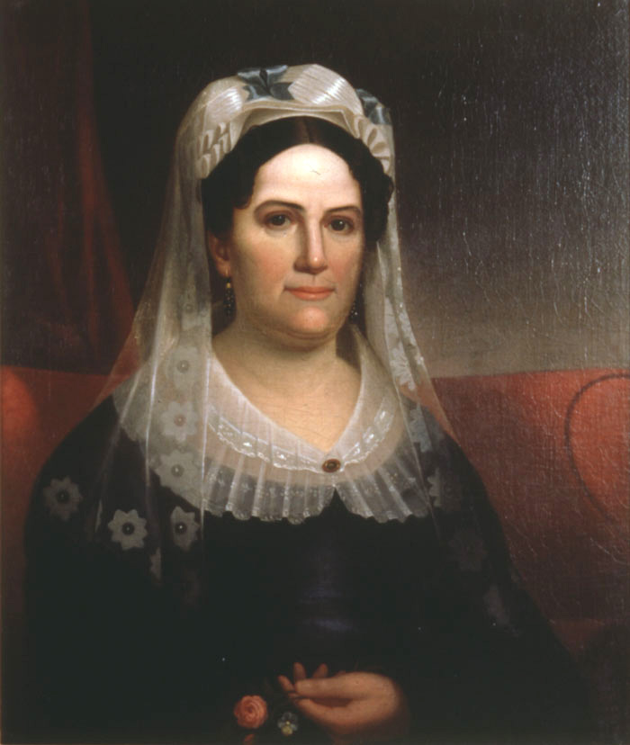 Portrait of Rachel Donelson Jackson, wife of U.S. President Andrew Jackson. Image courtesy of the Tennessee Portrait Project.